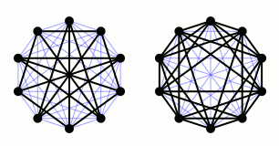 Sample of complement graph (of Petersen graph)